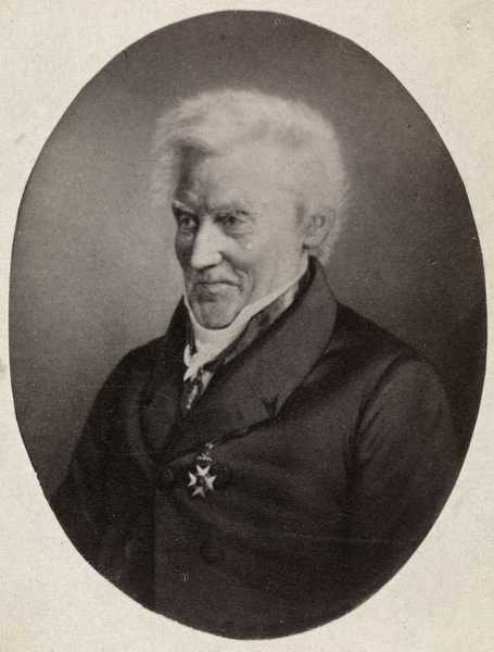 Nils Berner Sørensen (1774–1854), Norwegian physician and professor of medicine at Oslo University 1814–1840.